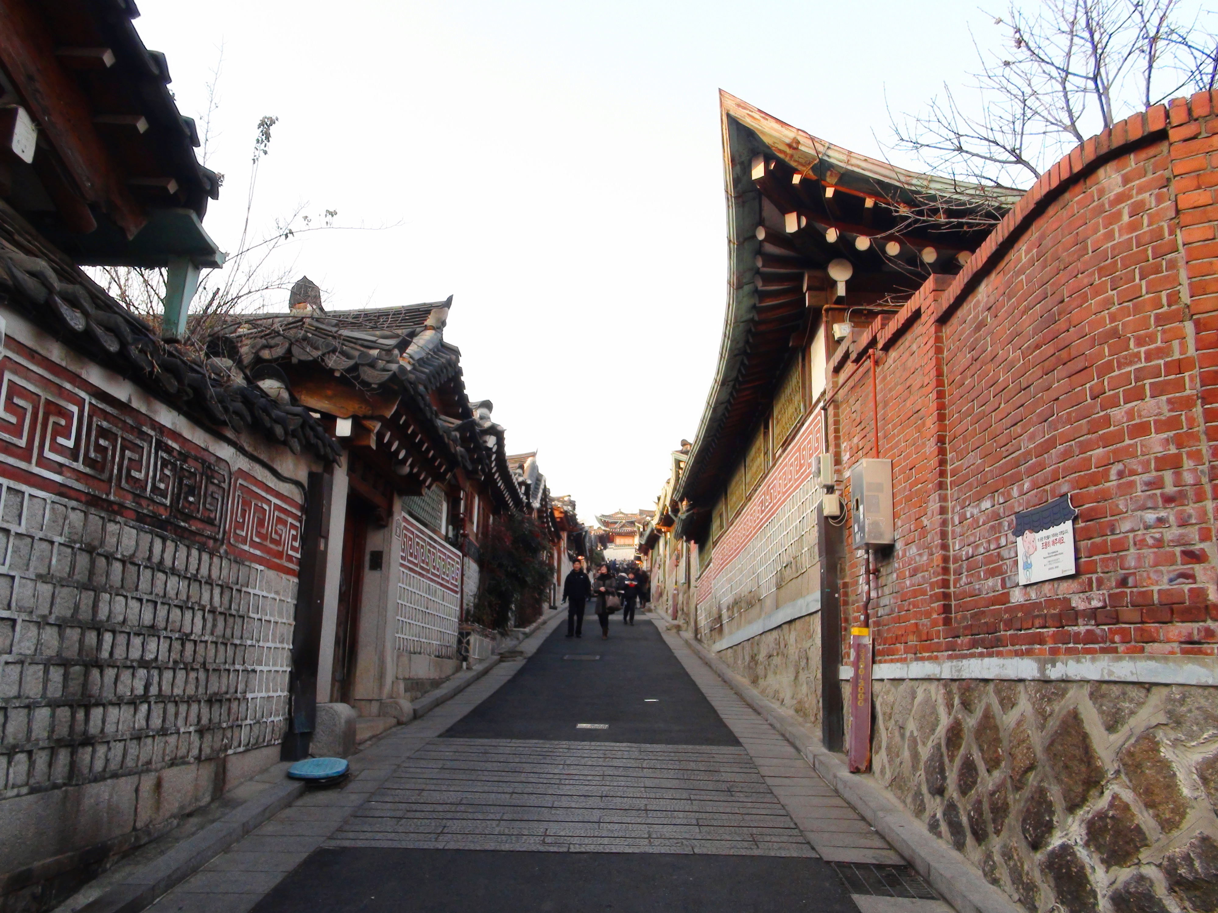 Area west of Bukchon Hanok Village in Seoul